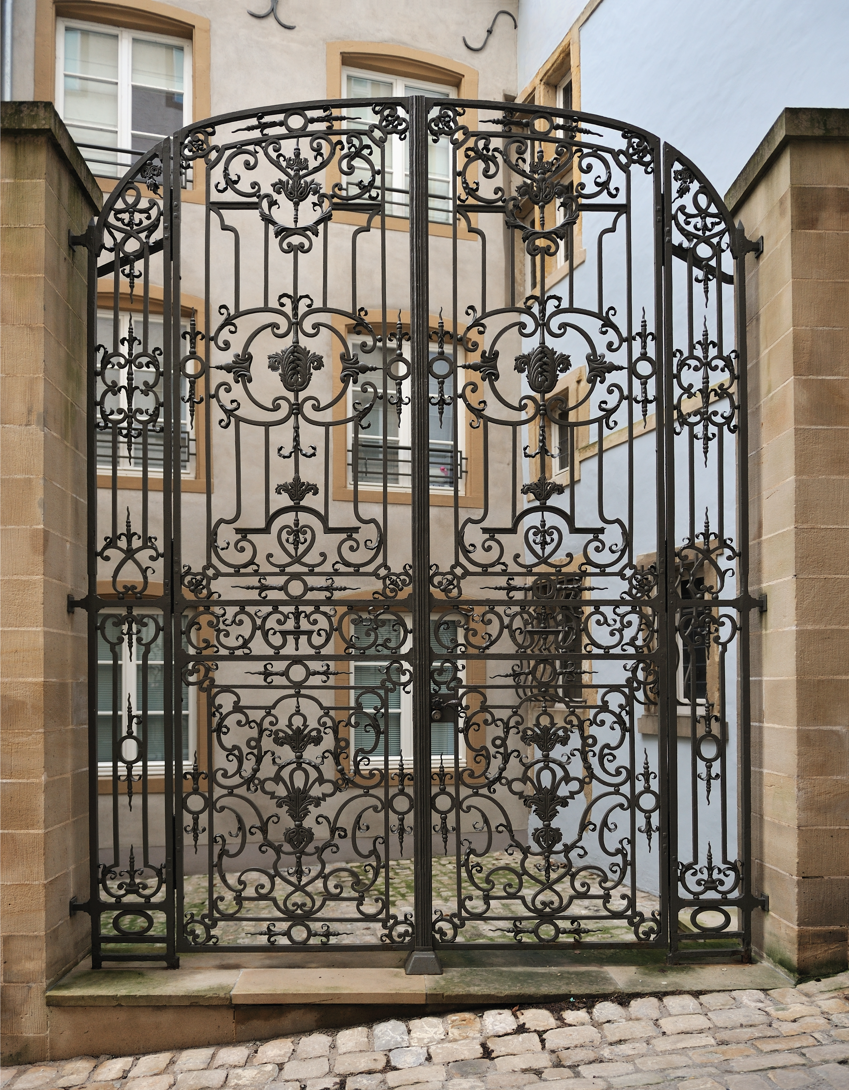 Luxembourg City, Musée national d'histoire et d'art: gate in wrought iron in Wiltheim street.